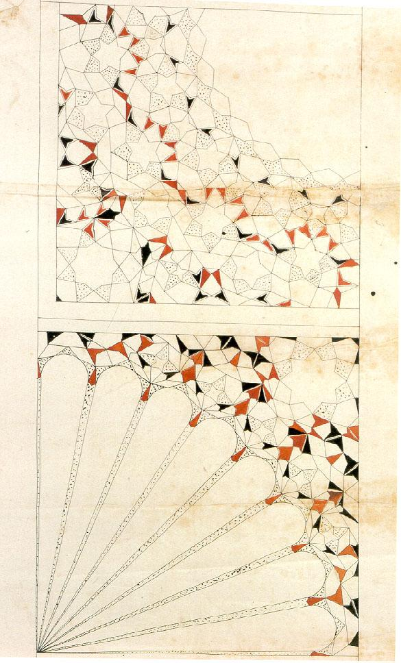 Panel from the Topkapı Scroll. Bottom, fan-shaped radial muqarnas quarter vault. top, shell-shaped radial muqarnas quarter vault.